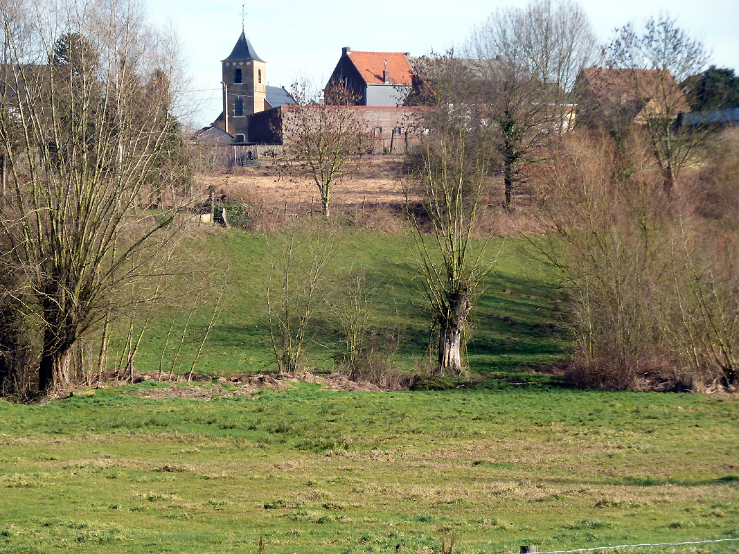 Sint-Mertens-Vissenaken: battlefield 1576